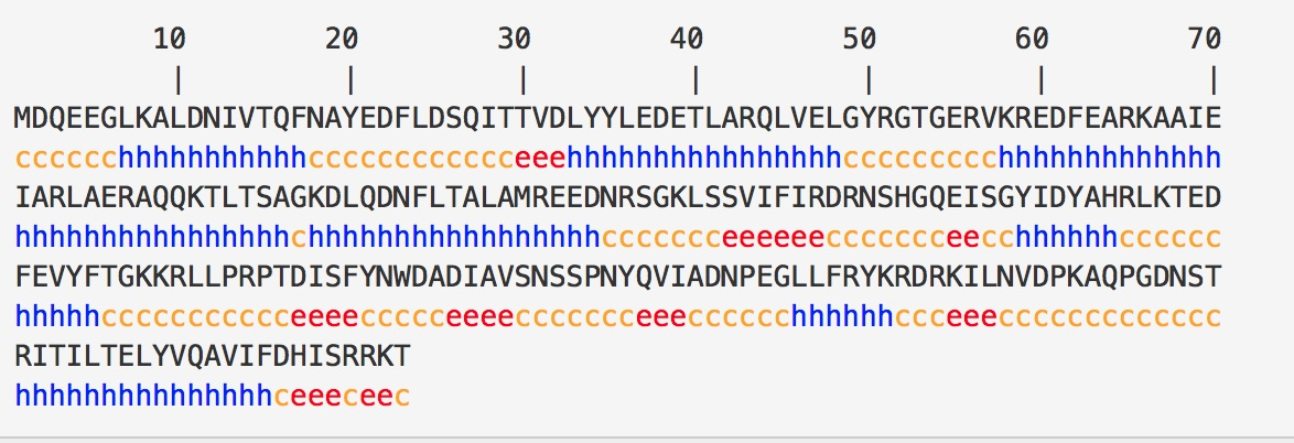 GOR4 prediction of CFAP299 protein secondary structure